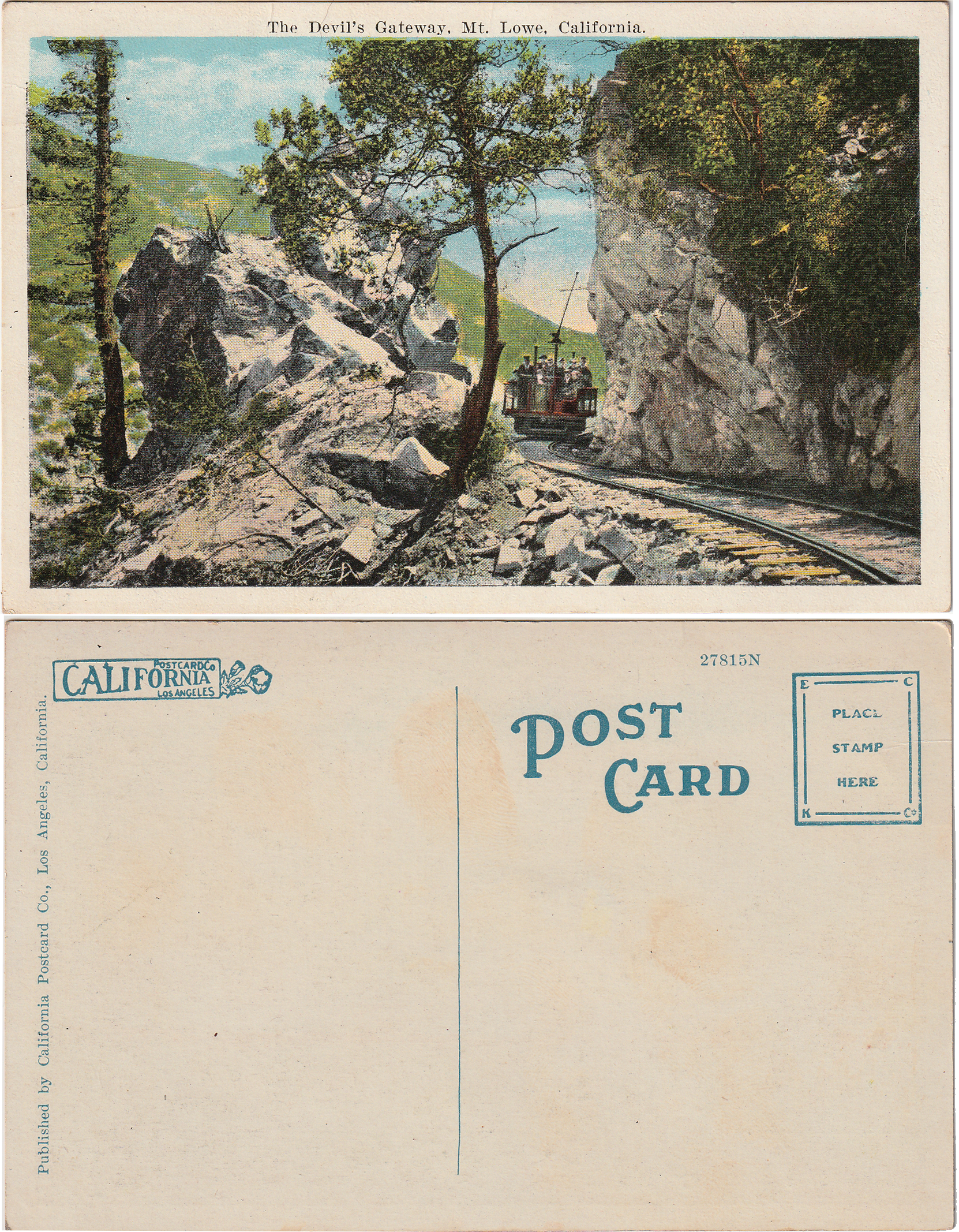 Postcard of Mt. Lowe Railway, circa 1910.